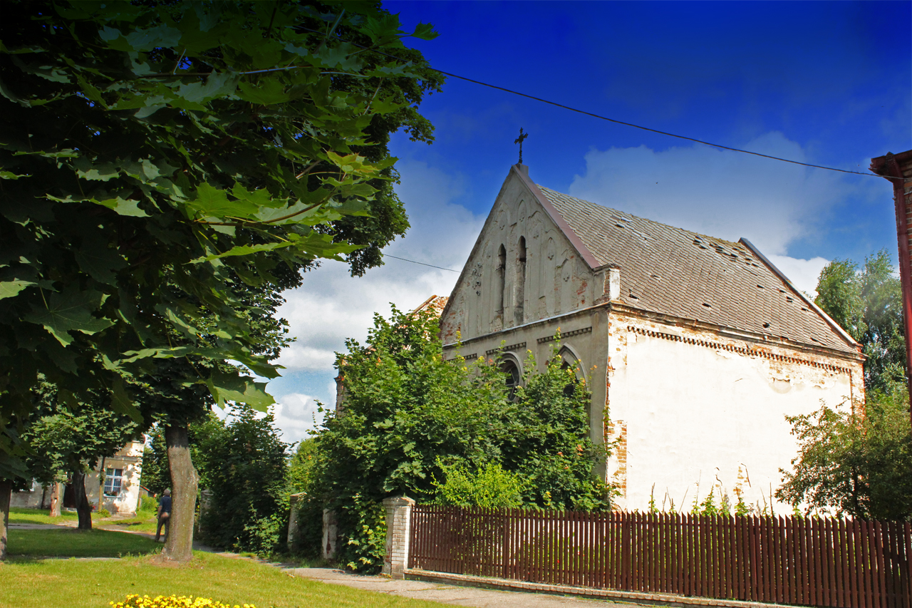 Koźminek, Protestant chapel (with the school and housing cantor) 1908